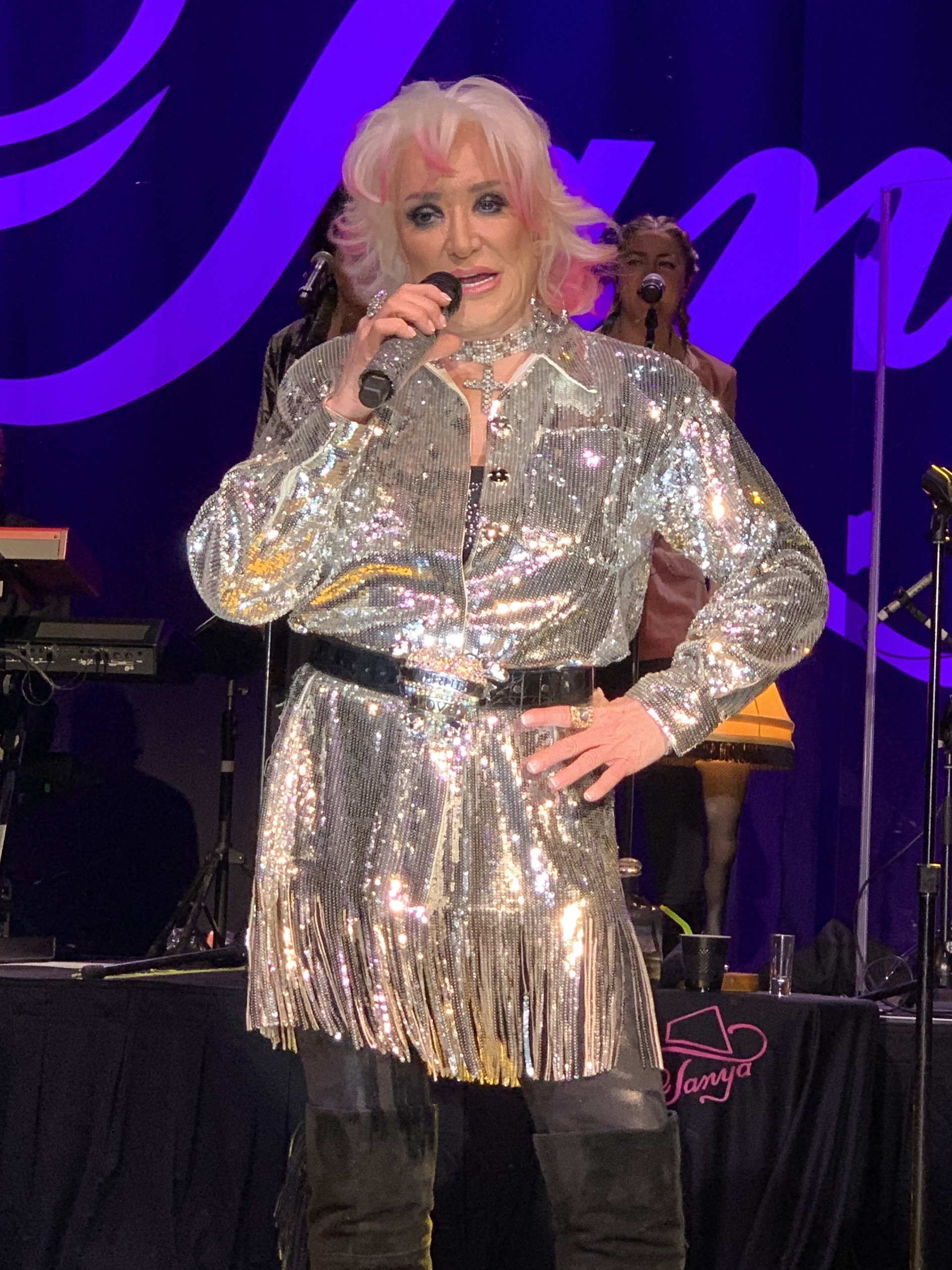 Tanya Tucker performing at Graceland in Memphis, Tennessee, on February 20, 2020.